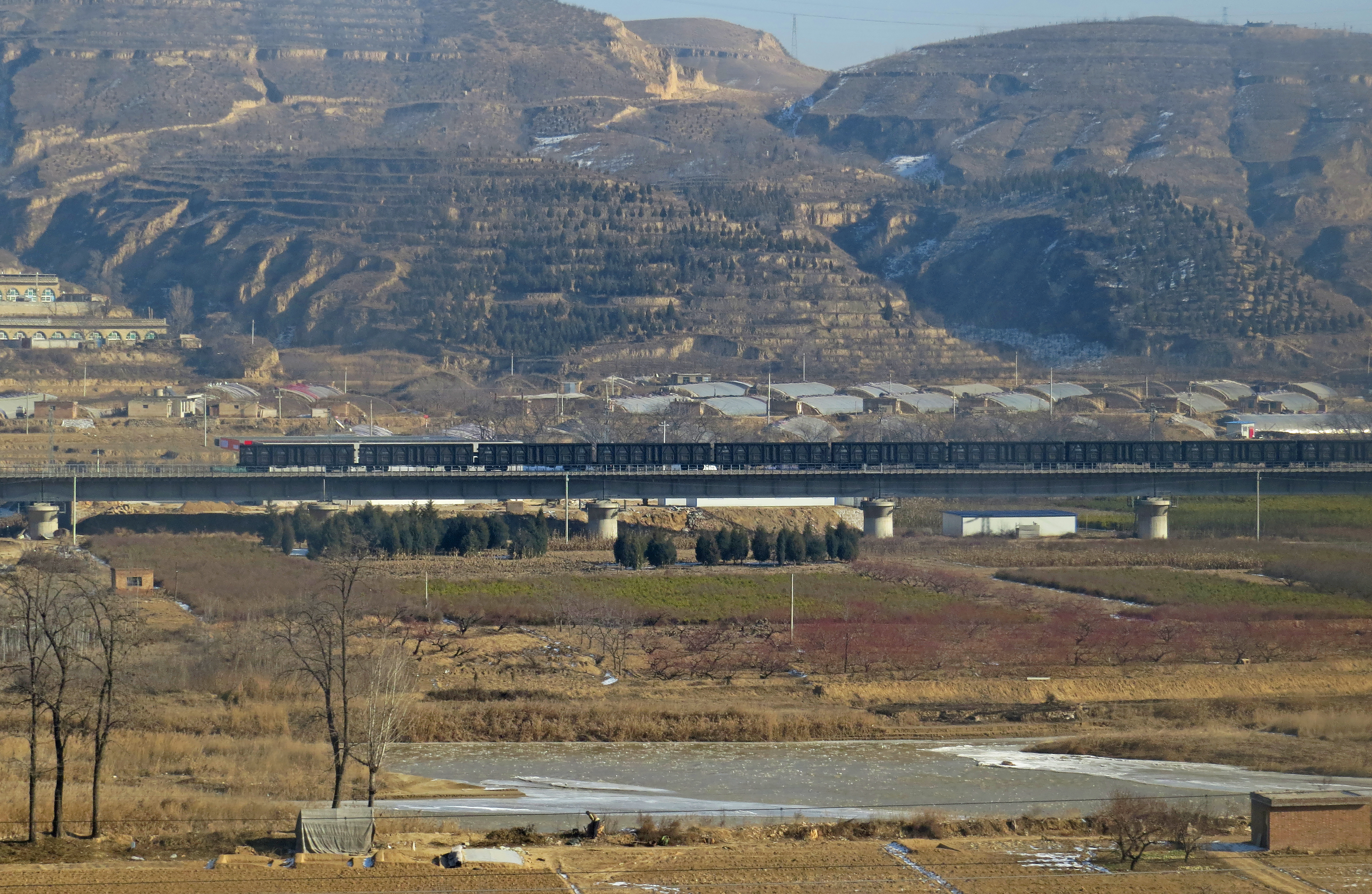 Typical scene of northern Shaanxi.